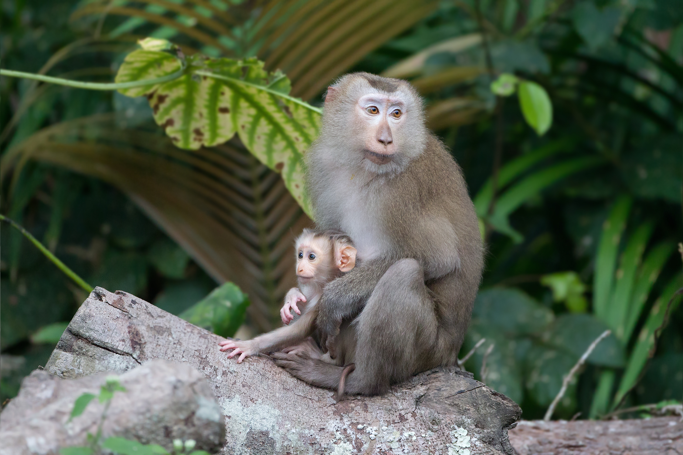 Northern Pig-tailed Macaque (Macaca leonina) mother with baby, Khao Yai National Park, Nakhon Ratchasima, Thailand